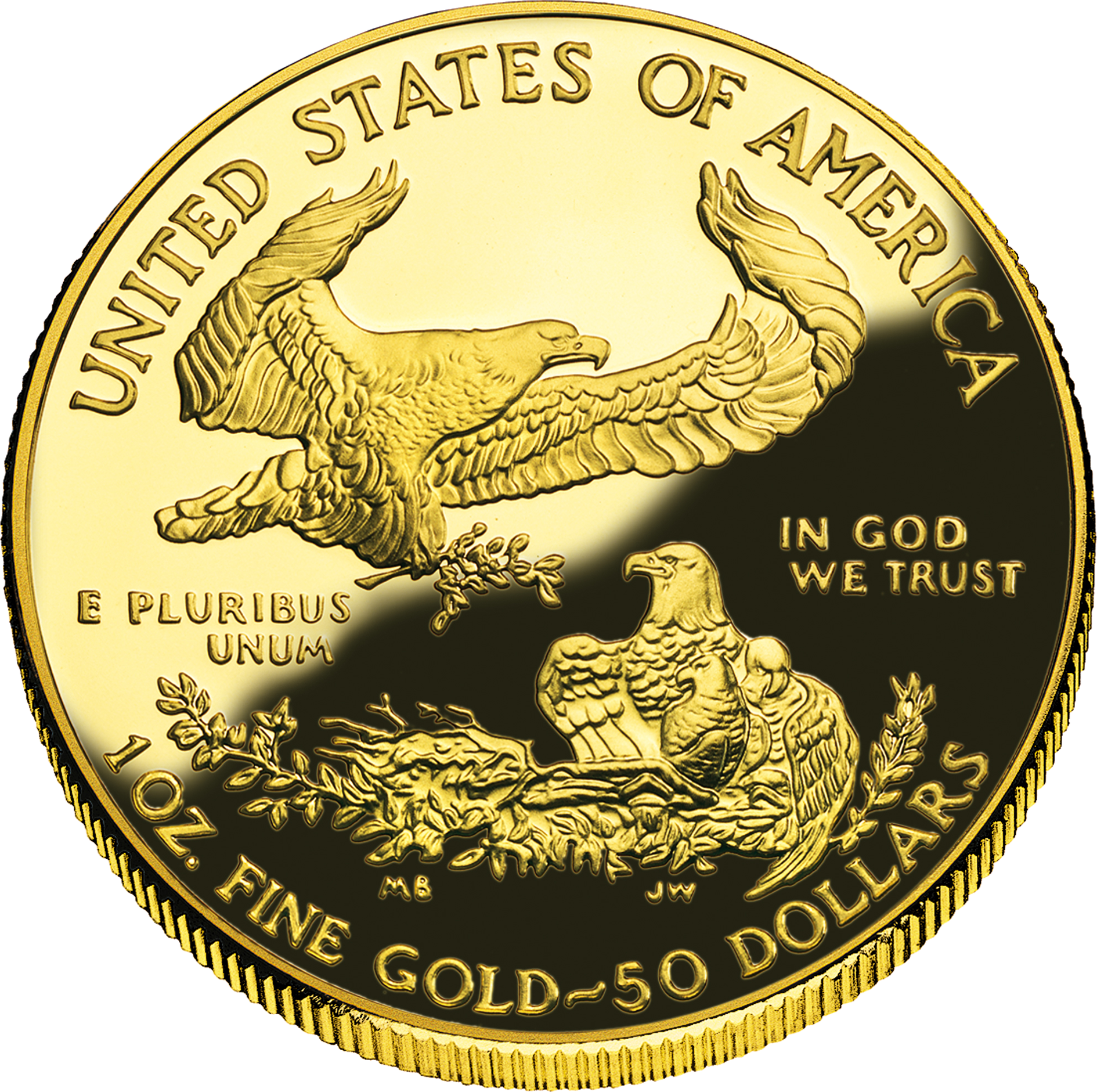 Removed background, cropped, and converted to PNG with Macromedia Fireworks. This image depicts a unit of currency issued by the United States of America. If Fraudulent use of this image is punishable under applicable counterfeiting laws. As listed by the United States Secret Service at money illustrations, the Counterfeit Detection Act of 1992, Public Law 102-550, in Section 411 of Title 31 of the Code of Federal Regulations (31 CFR 411), permits color illustrations of U.S. currency provided:1. The illustration is of a size less than three-fourths or more than one and one-half, in linear dimension, of each part of the item illustrated;2. The illustration is one-sided; and3. All negatives, plates, positives, digitized storage medium, graphic files, magnetic medium, optical storage devices, and any other thing used in the making of the illustration that contain an image of the illustration or any part thereof are destroyed and/or deleted or erased after their final use. Certain coins contain copyrights licensed to the U.S. Mint and owned by third parties or assigned to and owned by the U.S. Mint [1]. For the United States Mint circulating coin design use policy, see [2]; for the policy on the 50 State Quarters, see [3]. Also: COM:ART #Photograph of an old coin found on the Internet